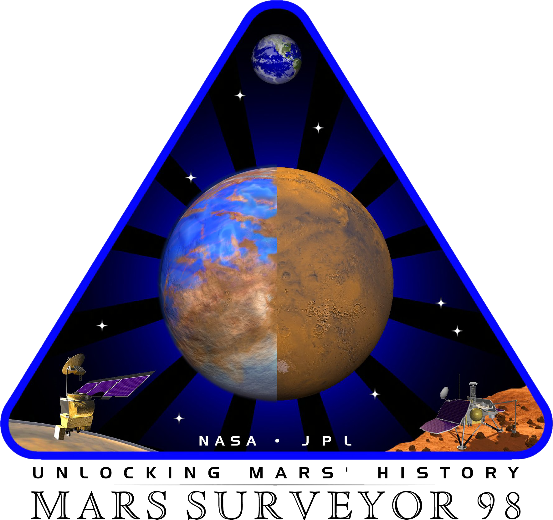 The Mars Polar Lander mission logo.